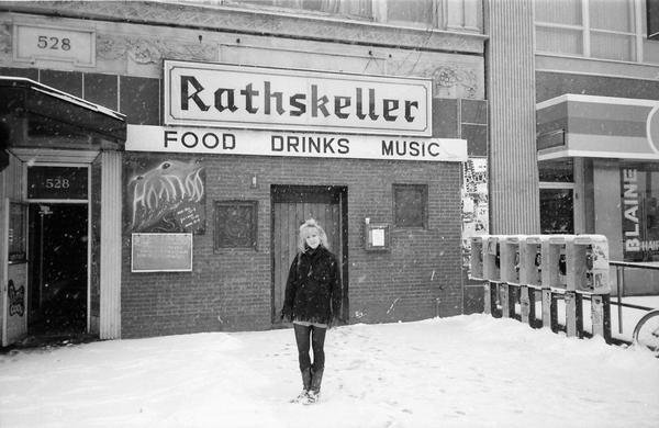 This is a photograph of Boston musician Linda S. Viens standing in front of the exterior of the Boston music venue, the Rat.